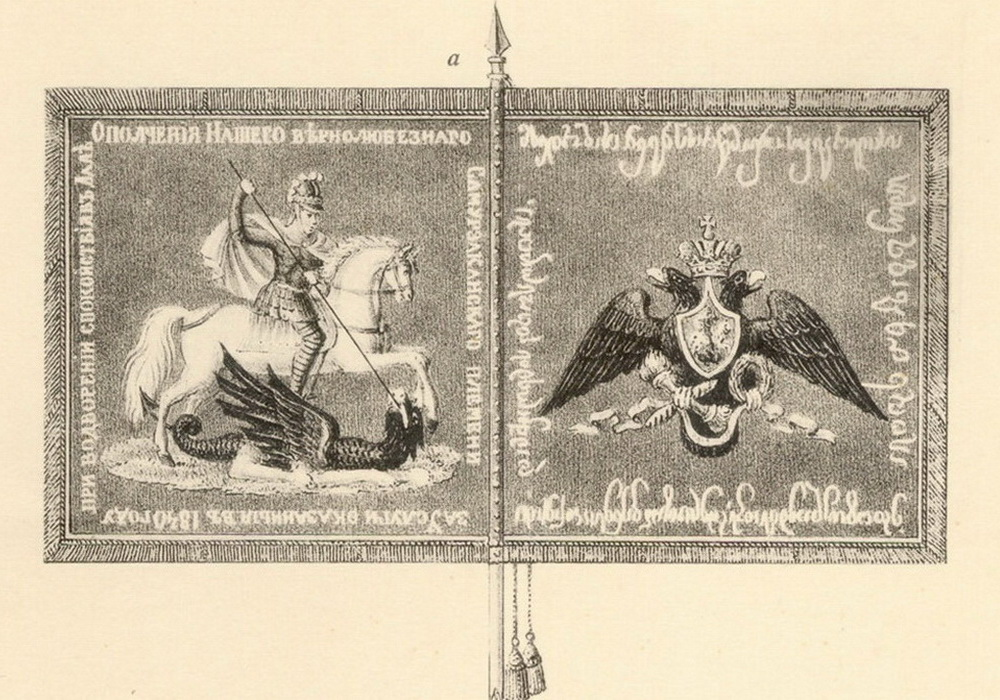 The war standard of the Samurzakany militia of the Imperial Russian Army. The inscription reads in Russian and Georgian: "To the Militia of Our Faithful Samurzakanian Tribe for Service Displayed in the Pacification of Dal in 1840."